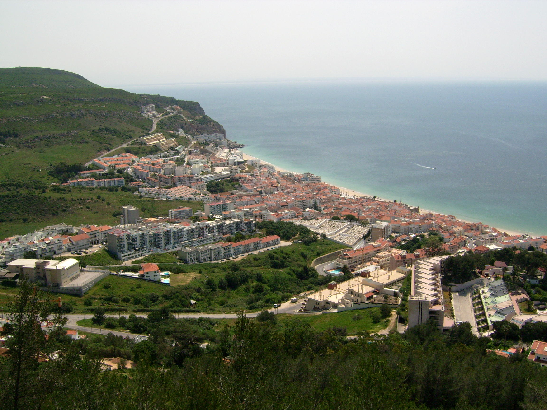 general sight of Sesimbra - Portugal user:sacavem